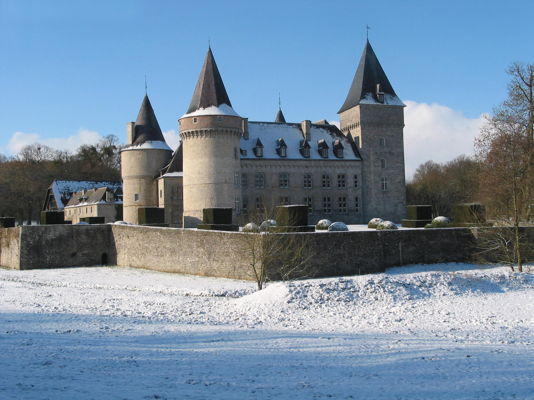 Anthée (Belgium), the "de Fontaine" castle (XVIth century).